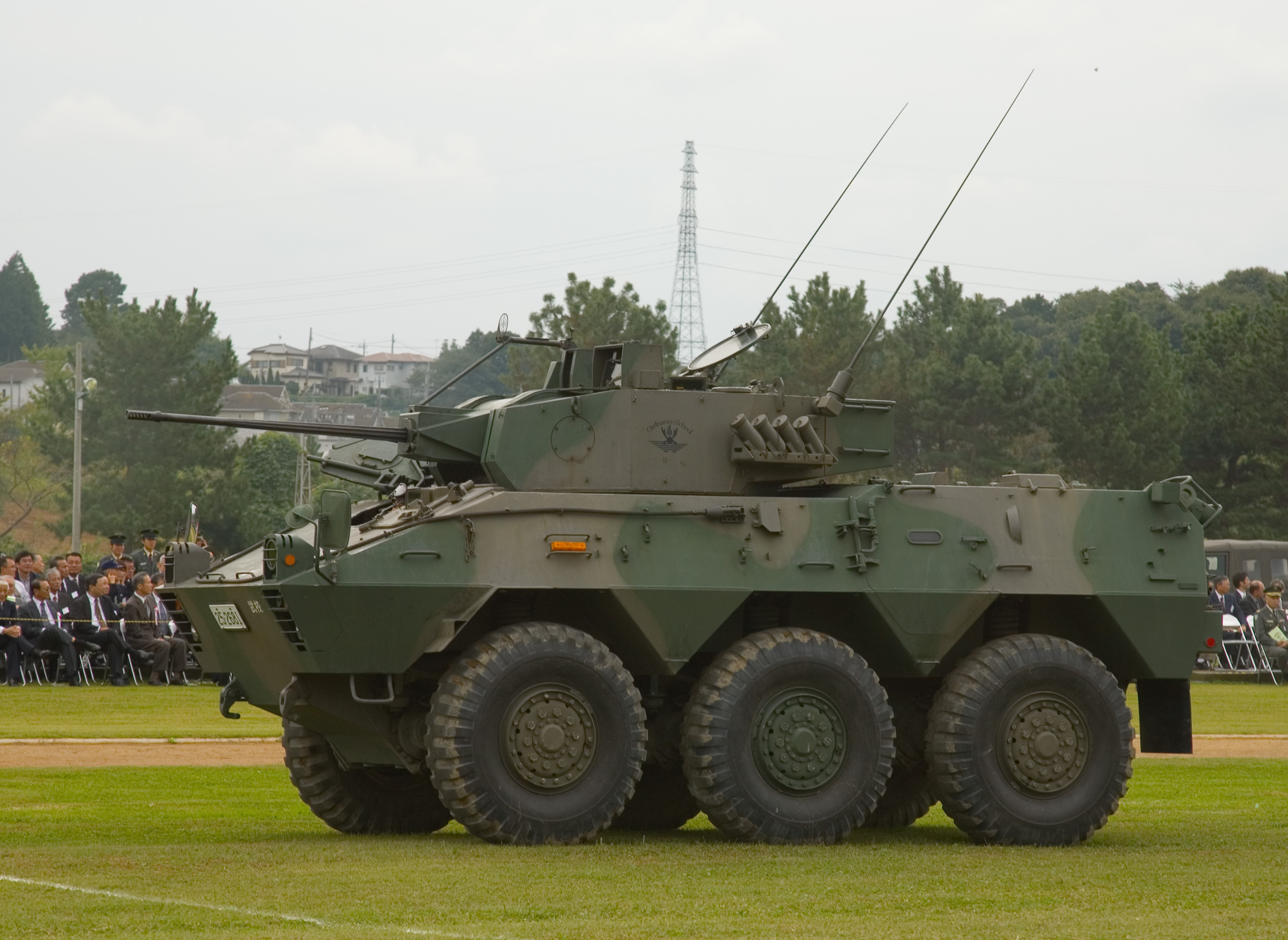 A Type 87 Scout/Recon. vehicle on display at the JGSDF Ordnance School in Tsuchiura, Kanto, Japan.